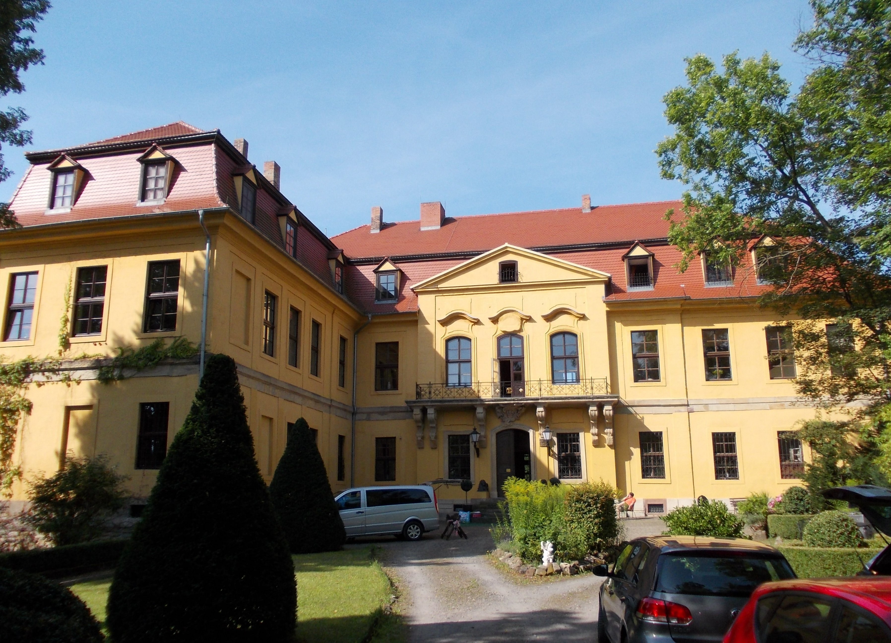 Lodersleben Castle (Querfurt, district of Saalekreis, Saxony-Anhalt) from the east